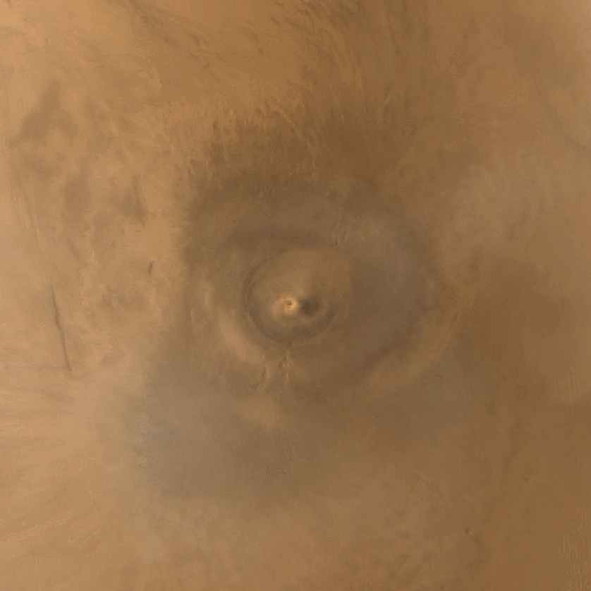 Title : Arsia Mons Spiral Cloud Description : One of the benefits of the Mars Global Surveyor (MGS) Mars Orbiter Camera(MOC) Extended Mission is the opportunity to observe how the planet's weather changes during a second full martian year. This picture of Arsia Mons was taken June 19, 2001; southern spring equinox occurred the same day. Arsia Mons is a volcano nearly large enough to cover the state of New Mexico. On this particular day (the first day of Spring), the MOC wide angle cameras documented an unusual spiral-shaped cloud within the 110 km(68 mi) diameter caldera--the summit crater--of the giant volcano. Because the cloud is bright both in the red and blue images acquired by the wide angle cameras, it probably consisted mostly of fine dust grains. The cloud's spin may have been induced by winds off the inner slopes of the volcano's caldera walls resulting from the temperature differences between the walls and the caldera floor, or by a vortex as winds blew up and over the caldera. Similar spiral clouds were seen inside the caldera for several days; we don't know if this was a single cloud that persisted throughout that time or one that regenerated each afternoon. Sunlight illuminates this scene from the left/upper left.